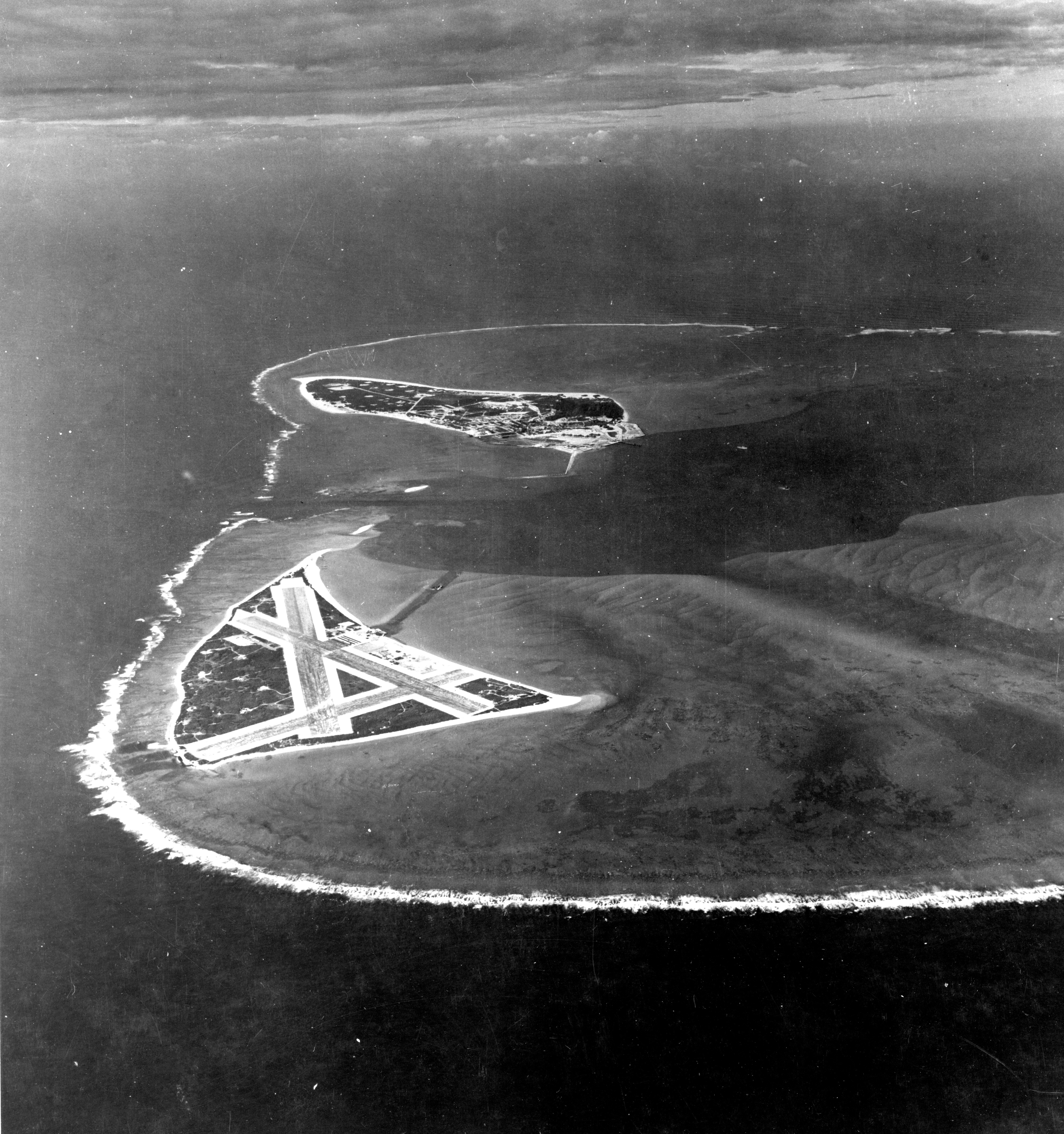 Aerial photograph of Midway Atoll, looking just south of west across the southern side of the atoll, 24 November 1941. Eastern Island, then the site of Midway's airfield, is in the foreground. Sand Island, location of most other base facilities, is across the entrance channel.